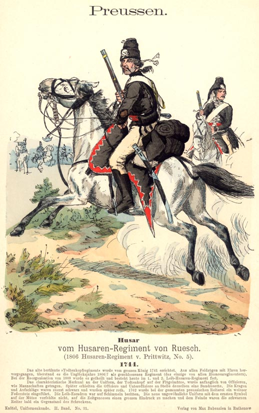 Preußen: Husar vom Husaren-Regiment von Ruesch. 1744